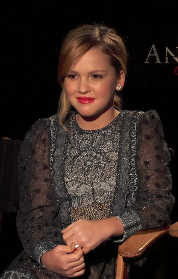 American child actress Talitha Bateman talks about her experience filming Annabelle Creation - in theaters August 11th, 2017.